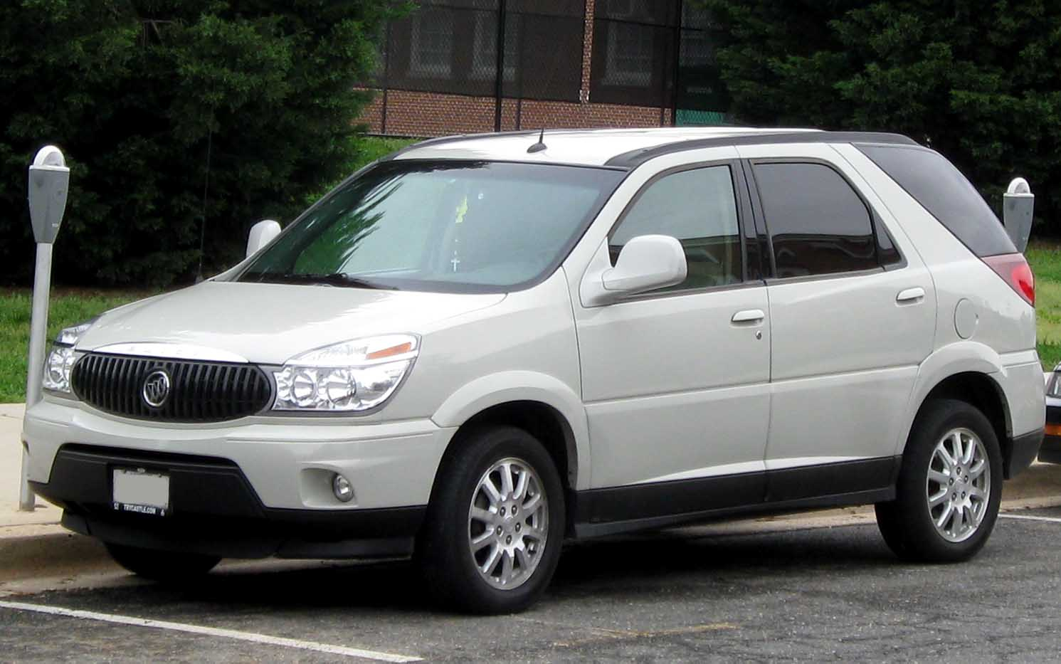 2004-2007 Buick Rendezvous photographed in College Park, Maryland, USA.